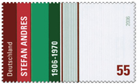 Offical german stamp 2006 "Stefan Andres"